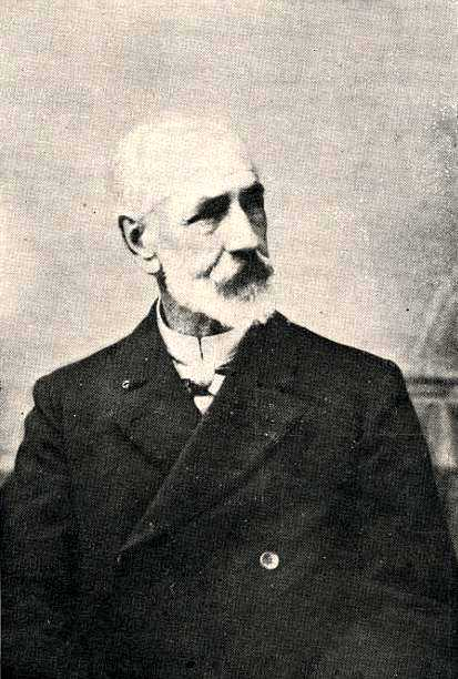 Pedro Lira (1845–1912) Description Chilean painter Date of birth/death17 May 184520 April 1912Location of birth/deathSantiago de ChileSantiago de ChileWork period1900 - 1956Work locationChileAuthority control VIAF: 78906087 LCCN: no2009014408 ULAN: 500096294 WorldCat